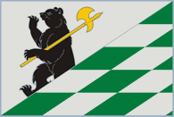 Danilov (Yaroslavl oblast), flag 2007